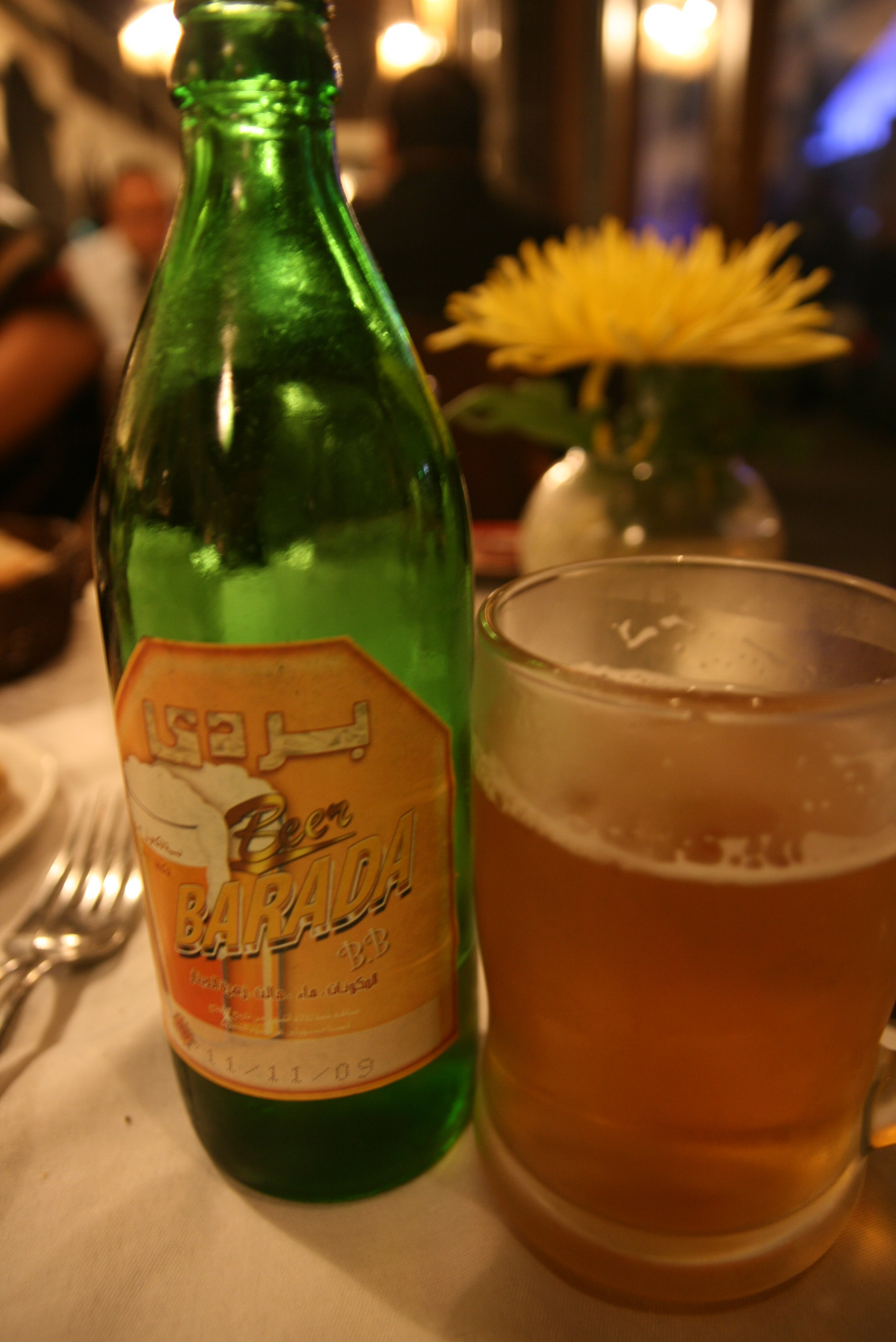 Barada beer (Syrian)